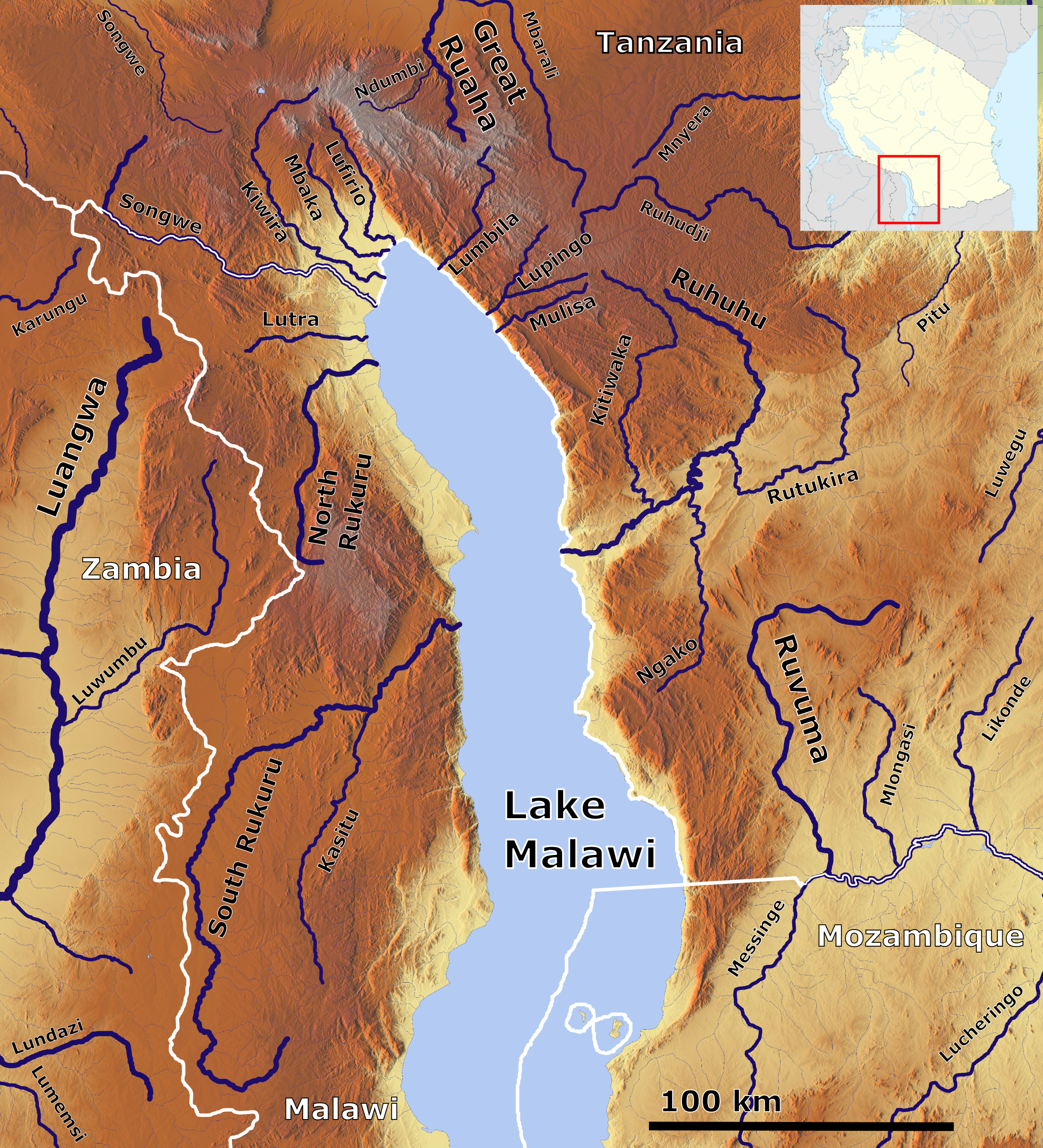 Lake Malawie Tanzania OSM